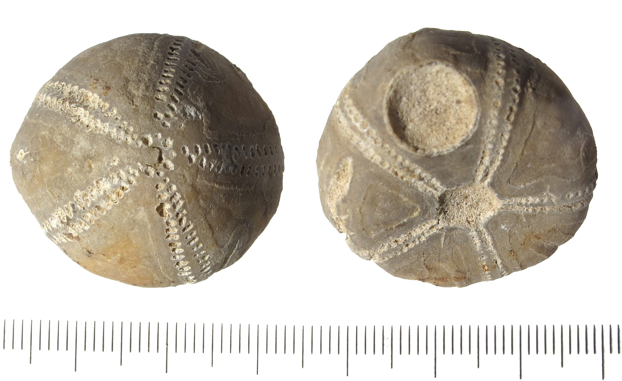 A complete fossil sea urchin. This object is a natural item, however it is recorded here due to the possibility that it could have been used as some kind of amulet. The object was found on a middle Saxon 'productive' site, and the fossil is out of place in the natural setting of the site. It might be, therefore, that it was brought to site through human agency. A similar echinoid was discovered in urn 364 at the Anglo-Saxon cemetery at Cleatham, North Lincolnshire, where it was thought to have been purposefully placed as an amulet.